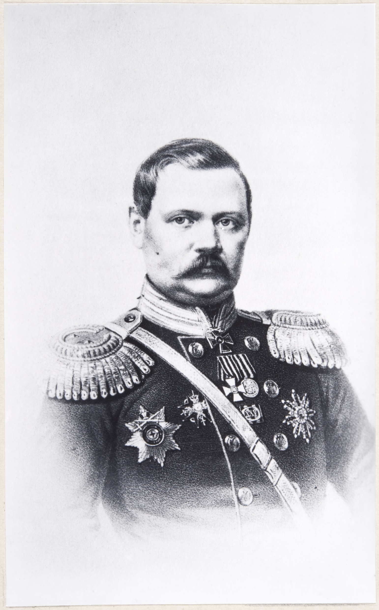 Picture of the Finnish senator and governor Bernhard Indrenius (1812–1884).